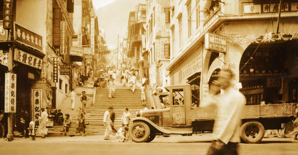 Hong Kong in the 1930s Pottinger Street viewed from Queen's Road Central?